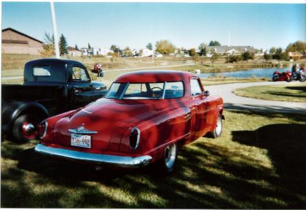 1951 Studebaker Champion Starlight